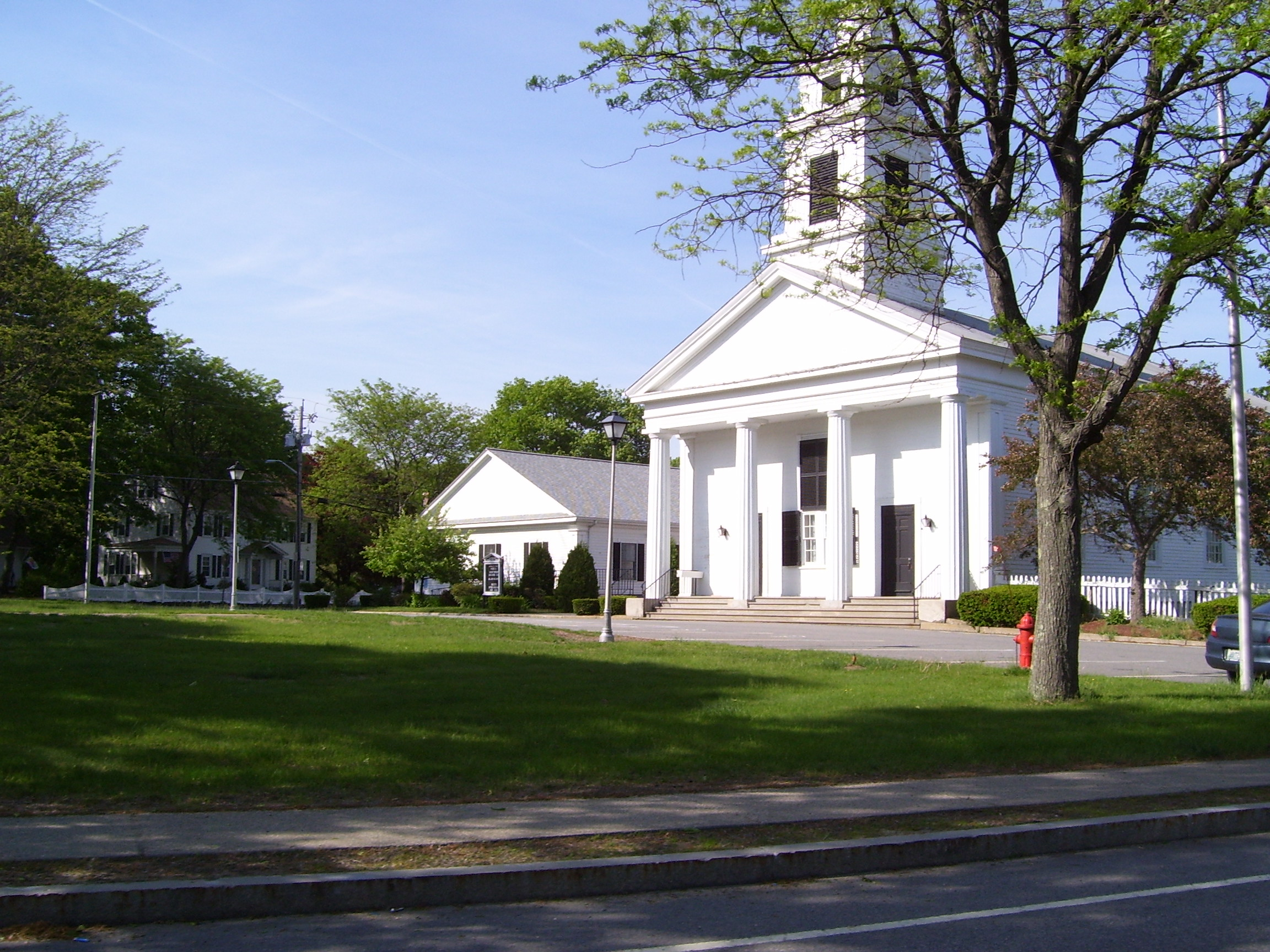 This is my 2008 photo of the Slatersville Congregational Church and village Common.